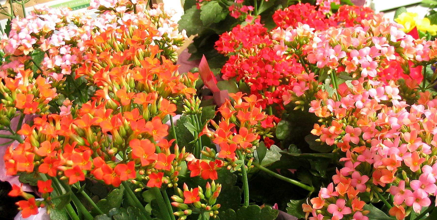 Flowers of Kalanchoe blossfeldiana